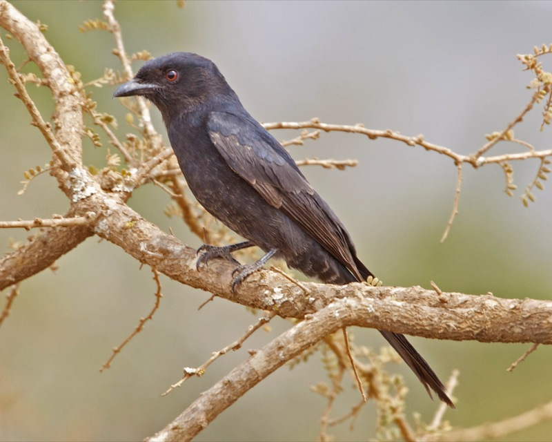 Fork-tailed Drongo Dicrurus adsimilis ssp Dicrurus adsimilis fugax Akagera National Park, Rwanda 15th. August 2009 Distribution; 690V1278